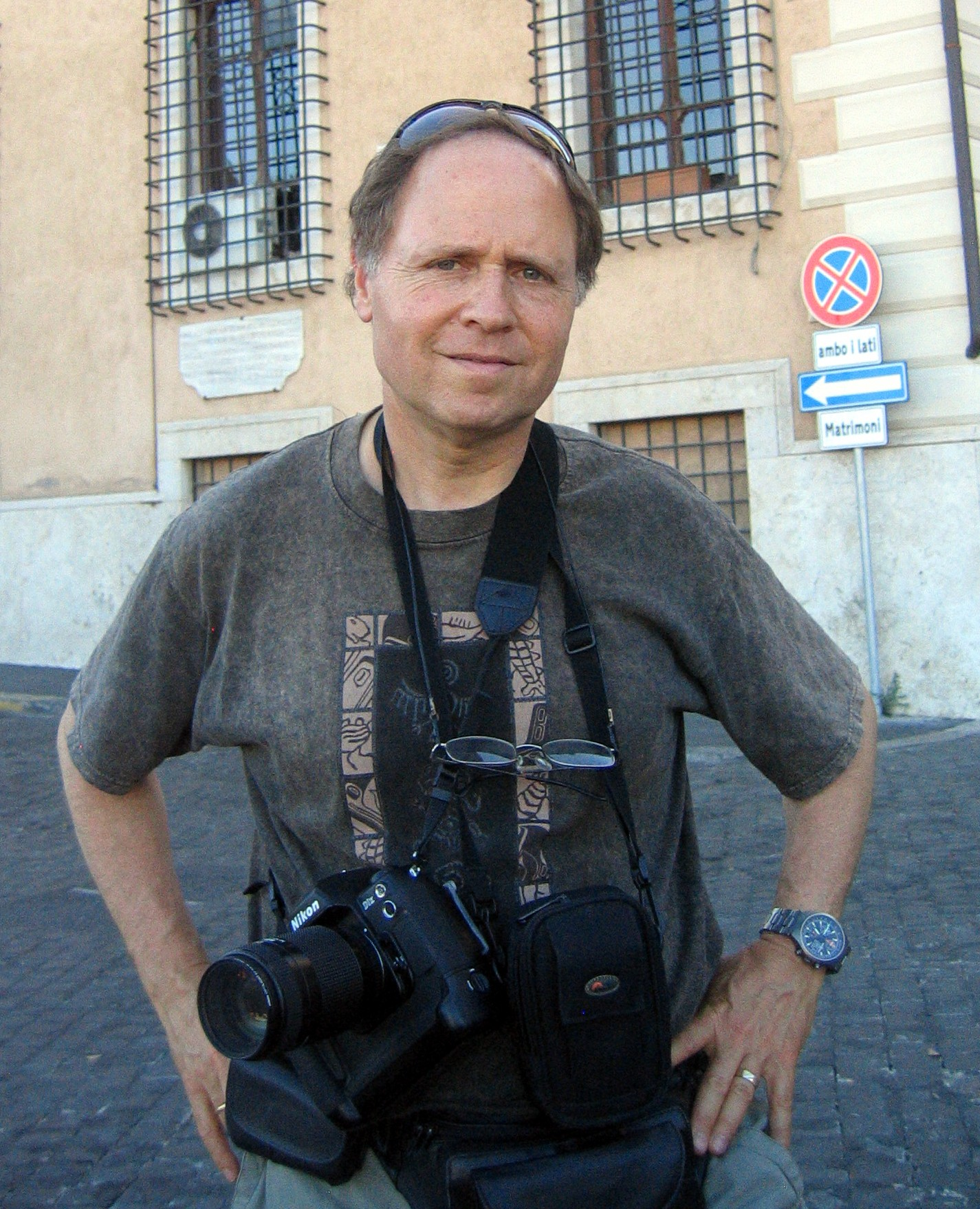 Henry Posamentier, circa 2002